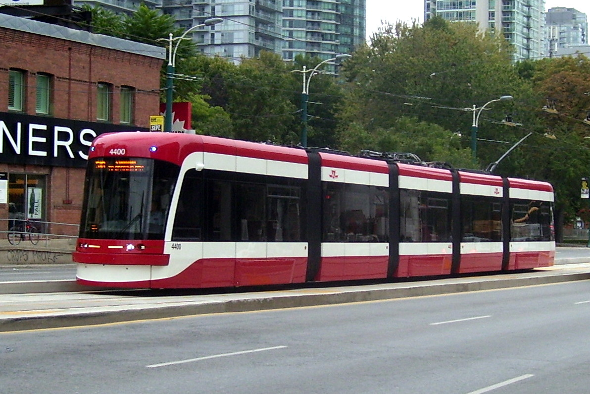 These new streetcars were introduced to revenue service on the Spadina streetcar line on August 31, 2014. Over the next five years, they will replace all of the CLRV and ALRV streetcars in Toronto.